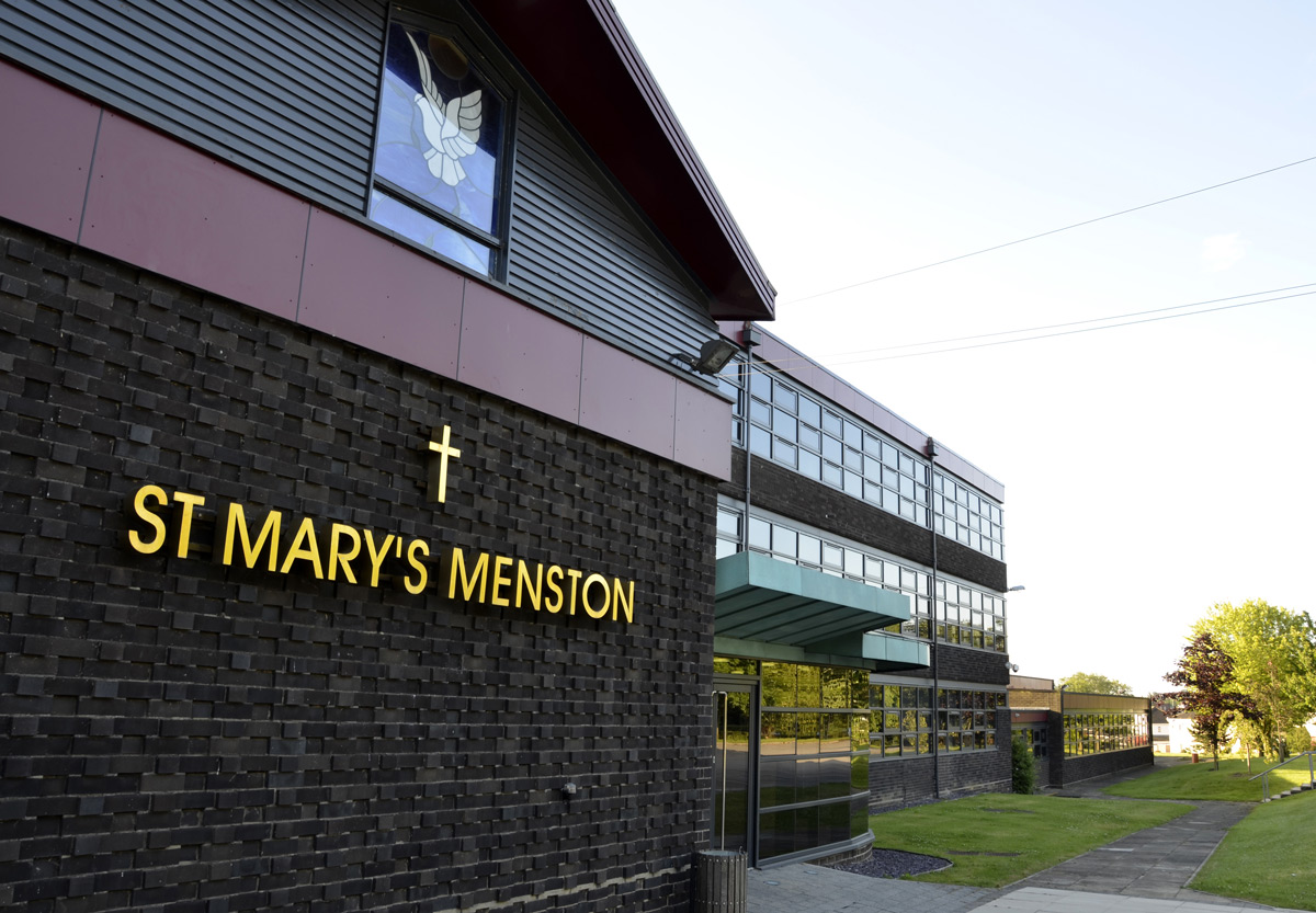 St. Mary's Catholic High School, Menston - visitor entrance of the Morse Building. July 2011.